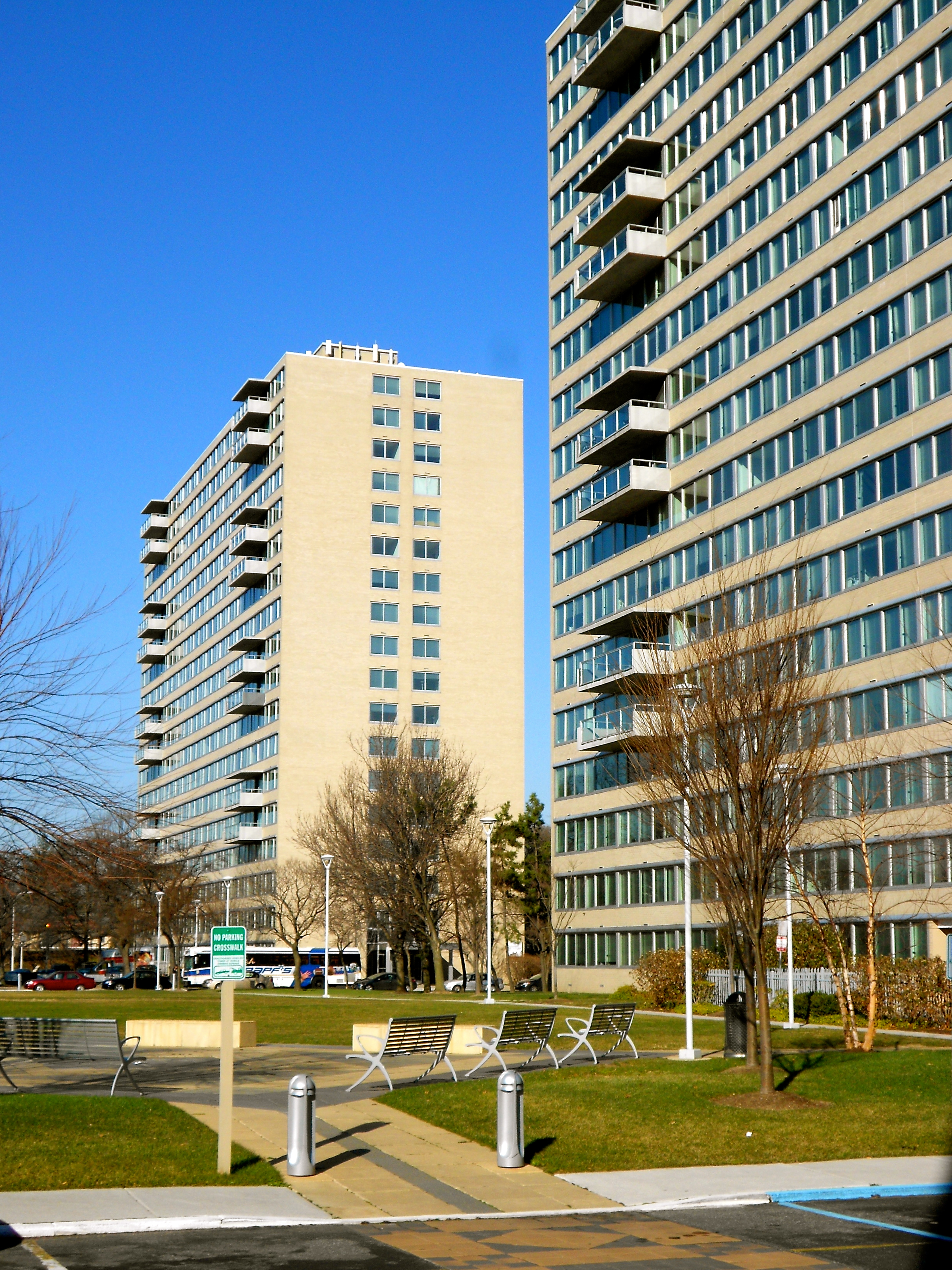 Park Towne Place on the NRHP since 12-2011 in Philadelphia near the Museum of Art